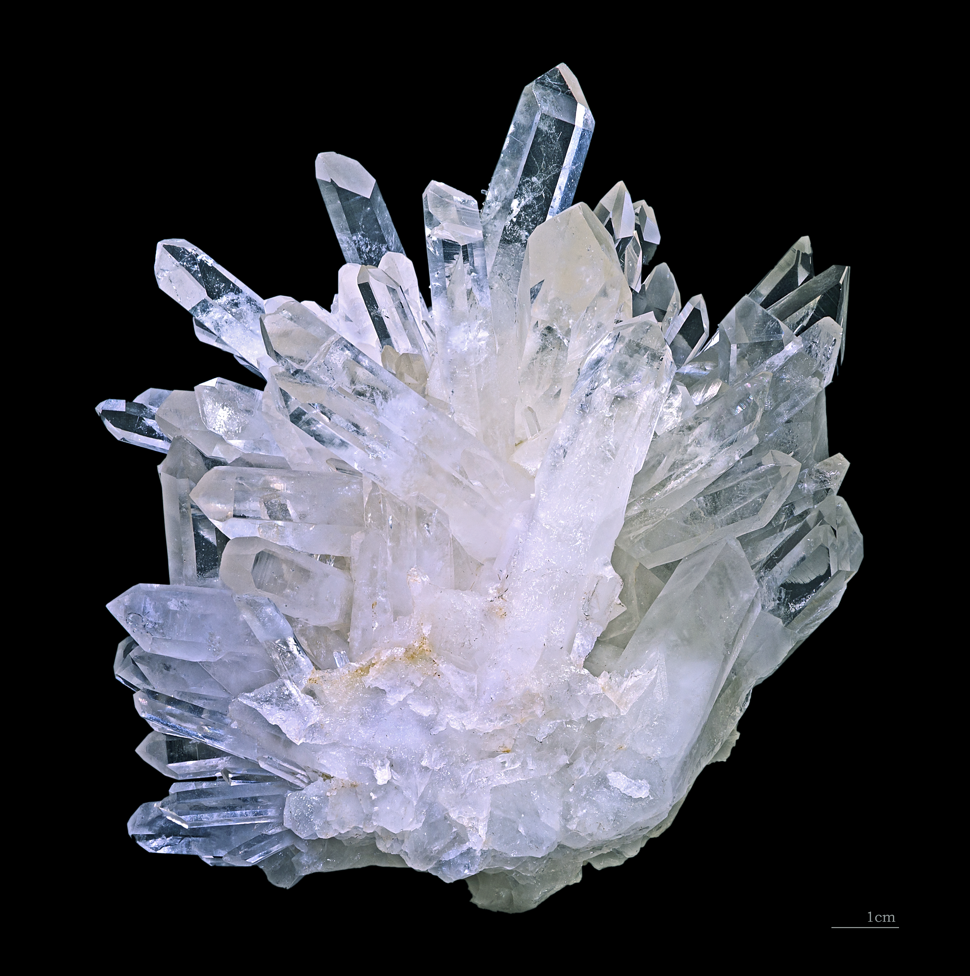 Quartz Locality : La Gardette mine , Bourg d'Oisans, Isère France Size 13x13cm